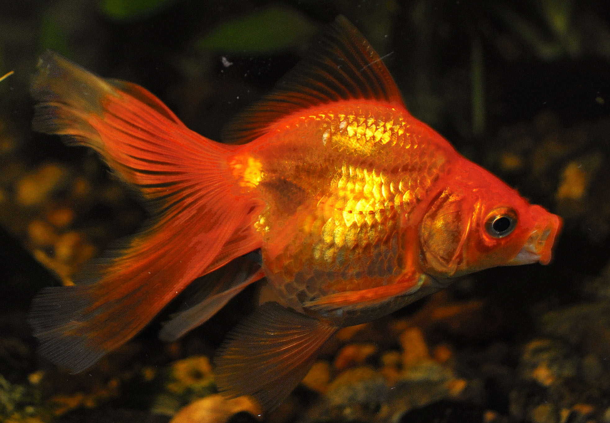 The Red Goldfish in Aquarium.